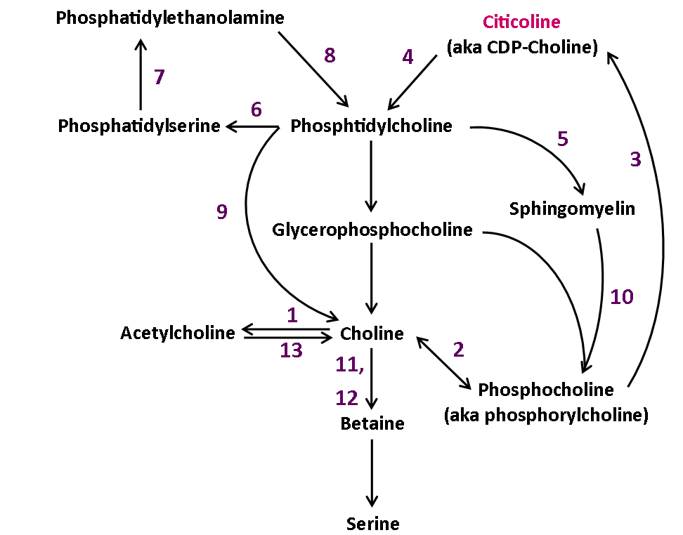 Enzymes involved in reactions are identified by numbers. 1. choline acetyltransferase, 2. choline kinase, 3. CTP:phosphocholine cytidylyltransferase, 4. CDP-choline:1,2-diacylglycerol cholinephosphotransferase, 5. sphingomyelin synthase, 6. phosphatidylserine synthase 1, 7. phosphatidylserine decarboxylase, 8. phosphatidylethanolamine N-methyltransferase, 9. various phospholipase and lysophospholipase activities, 10. sphingomyelinase, 11. choline oxidase, 12. betaine aldehyde dehydrogenase, 13. acetylcholinesterase. Adapted from Li Z, Vance DE. Thematic Review Series: Glycerolipids. Phosphatidylcholine and Choline Homeostasis. J. Lipid Res. 2008;49(6):1187-1194 and Secades JJ, Lorenzo JL. Citicoline: Pharmacological and clinical review, 2006 update. METHODS AND FINDINGS IN EXPERIMENTAL AND CLINICAL PHARMACOLOGY. 2006;28:1-56.